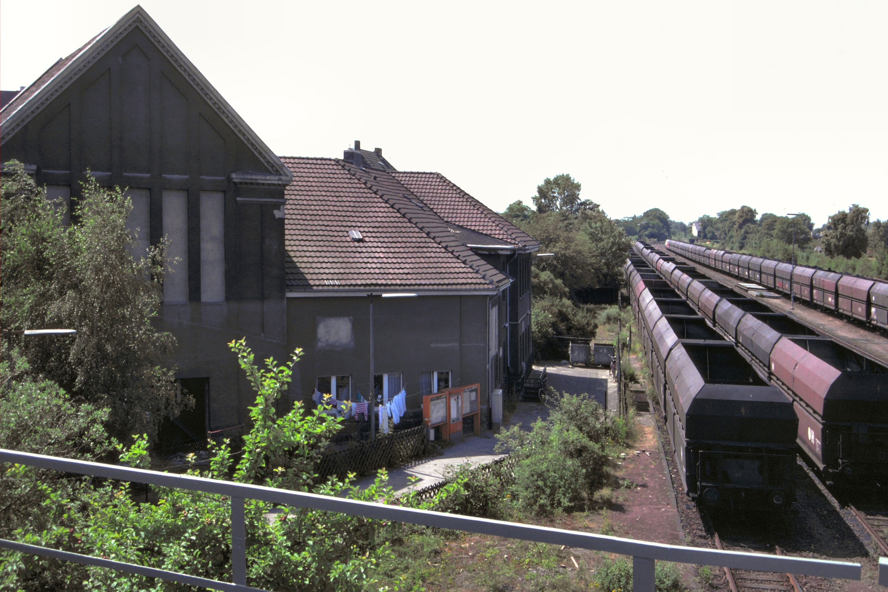 Train station Hervest-Dorsten